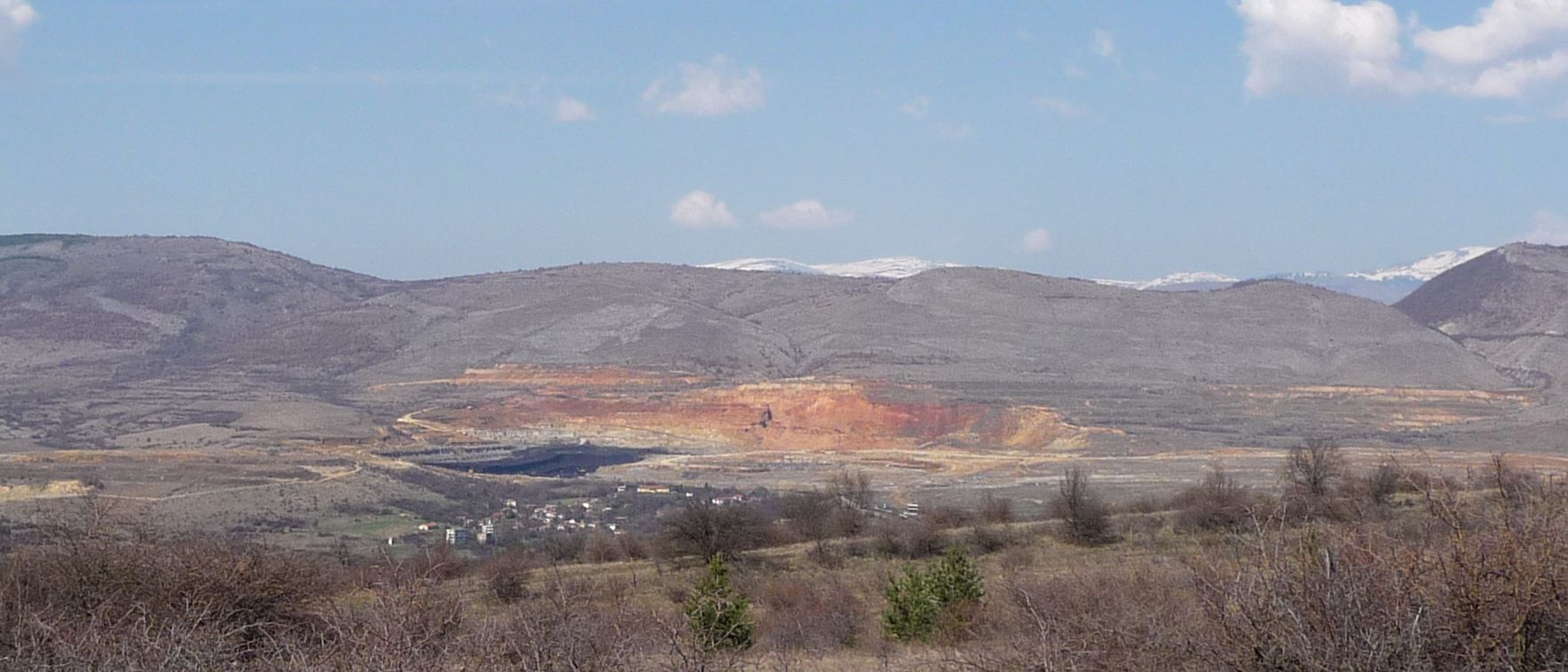 Village of Stanyanci, Godech Municipality, Bulgaria, with Stanyanci lignite mine - View from South.